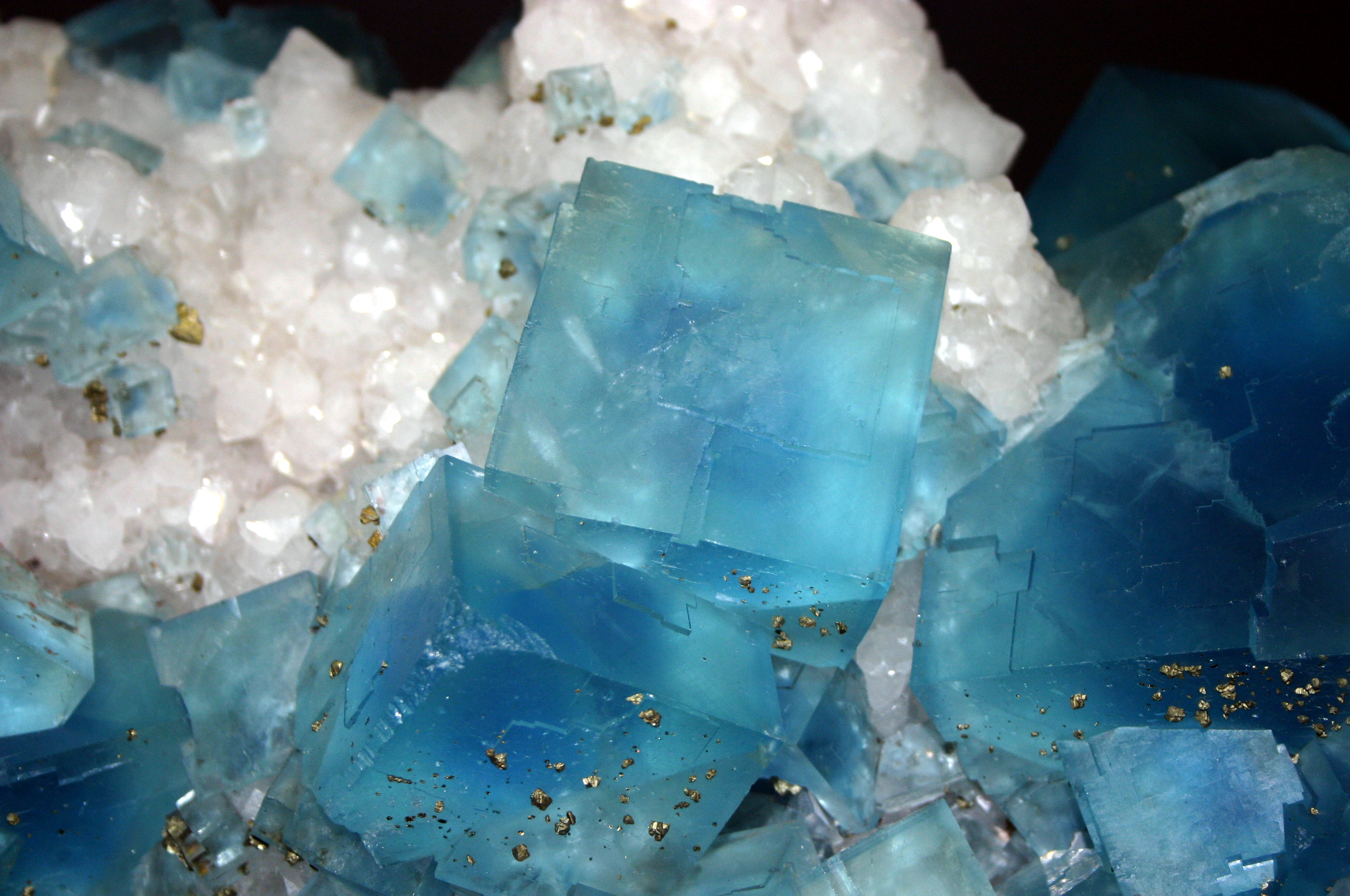 Fluorite crystals (blue) with Pyrite (gold-coloured), photographed at the National history museum in Milan, Italy